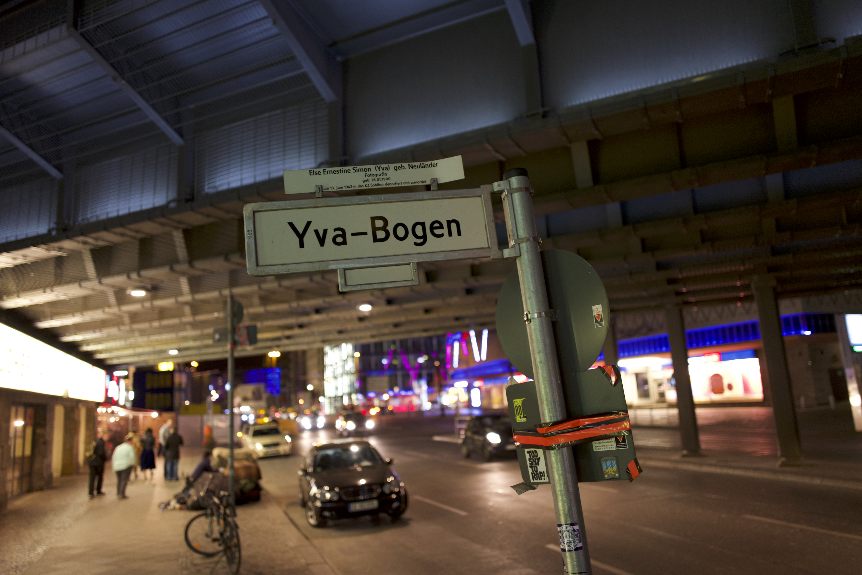 Street named after Yva ( in Western Berlin (Germany), close to train station "Bahnhof Zoo".